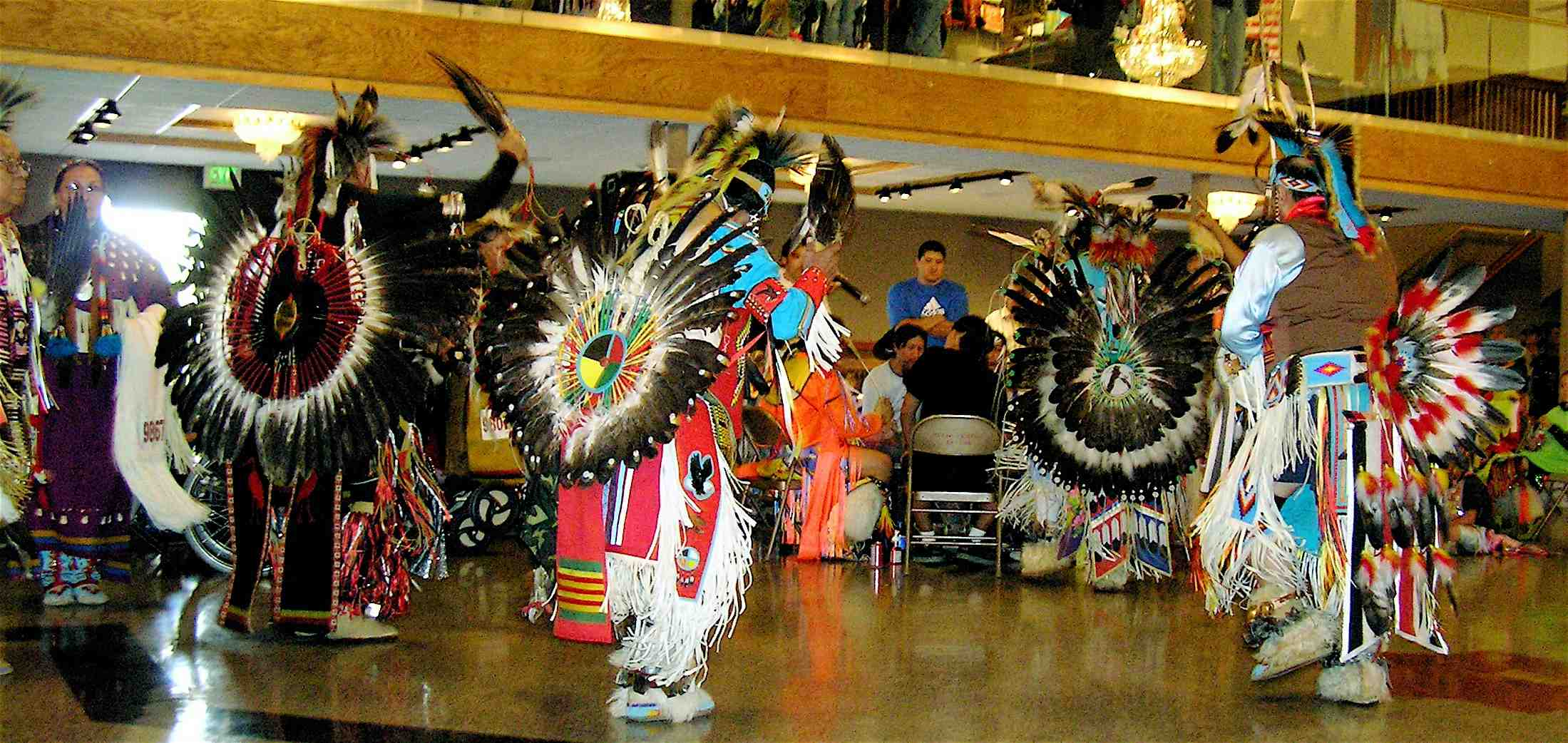 Image from Last Chance Community Pow Wow 2007, Helena, Montana